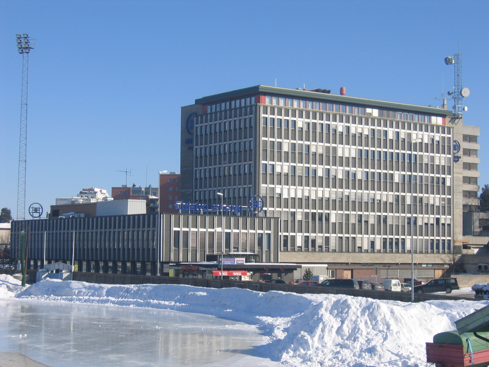 Headquarters of power company Eidsiva Energi in Vangsvegen 73, Hamar, Hedmark, Norway.